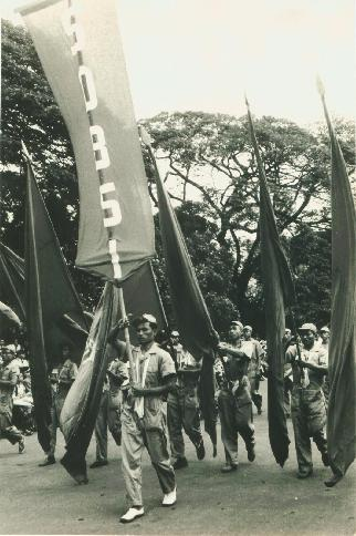 SOBSI rally